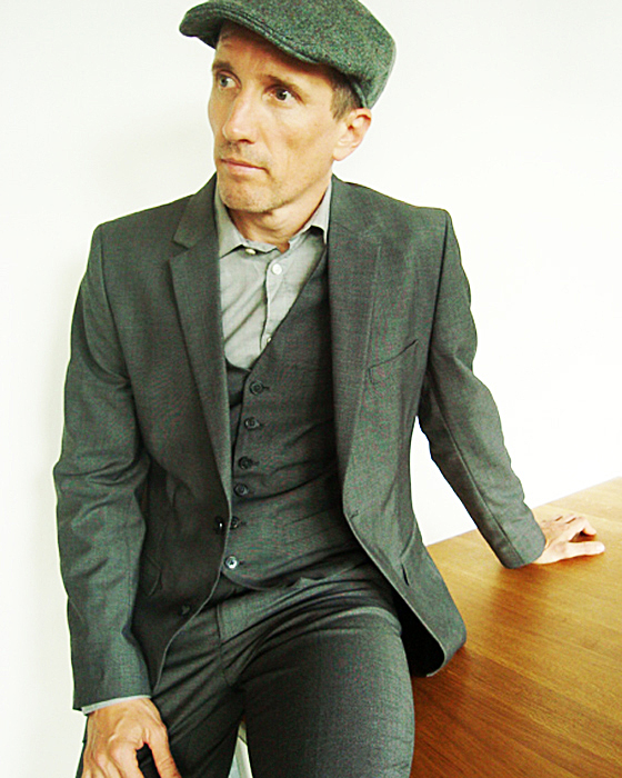 Hans Platzgumer 2014, Picture taken by Sandra Bellet